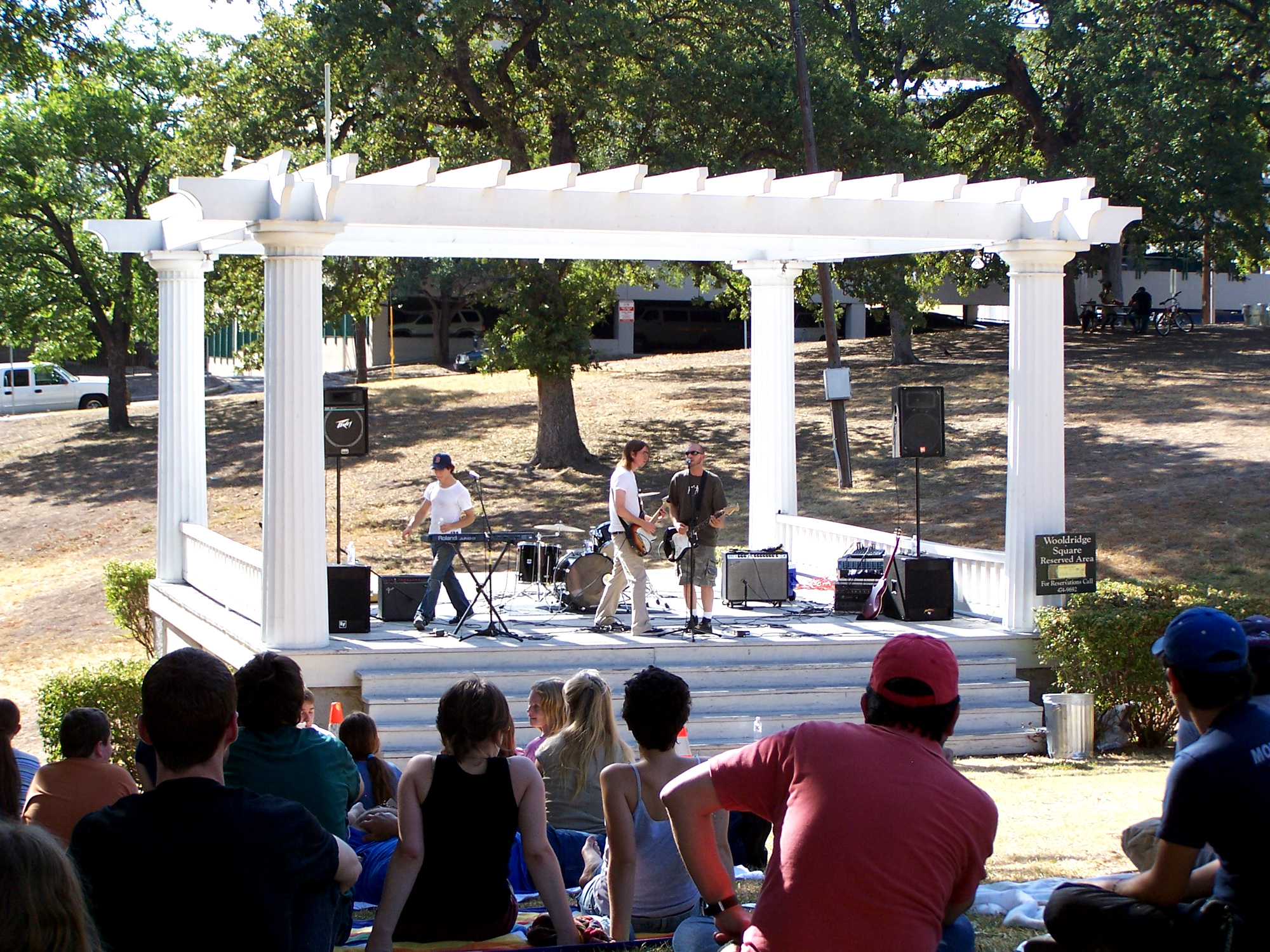 The Wooldridge Park pergola located in Austin, Texas, United States. The park was listed on the National Register of Historic Places on August 1, 1979.